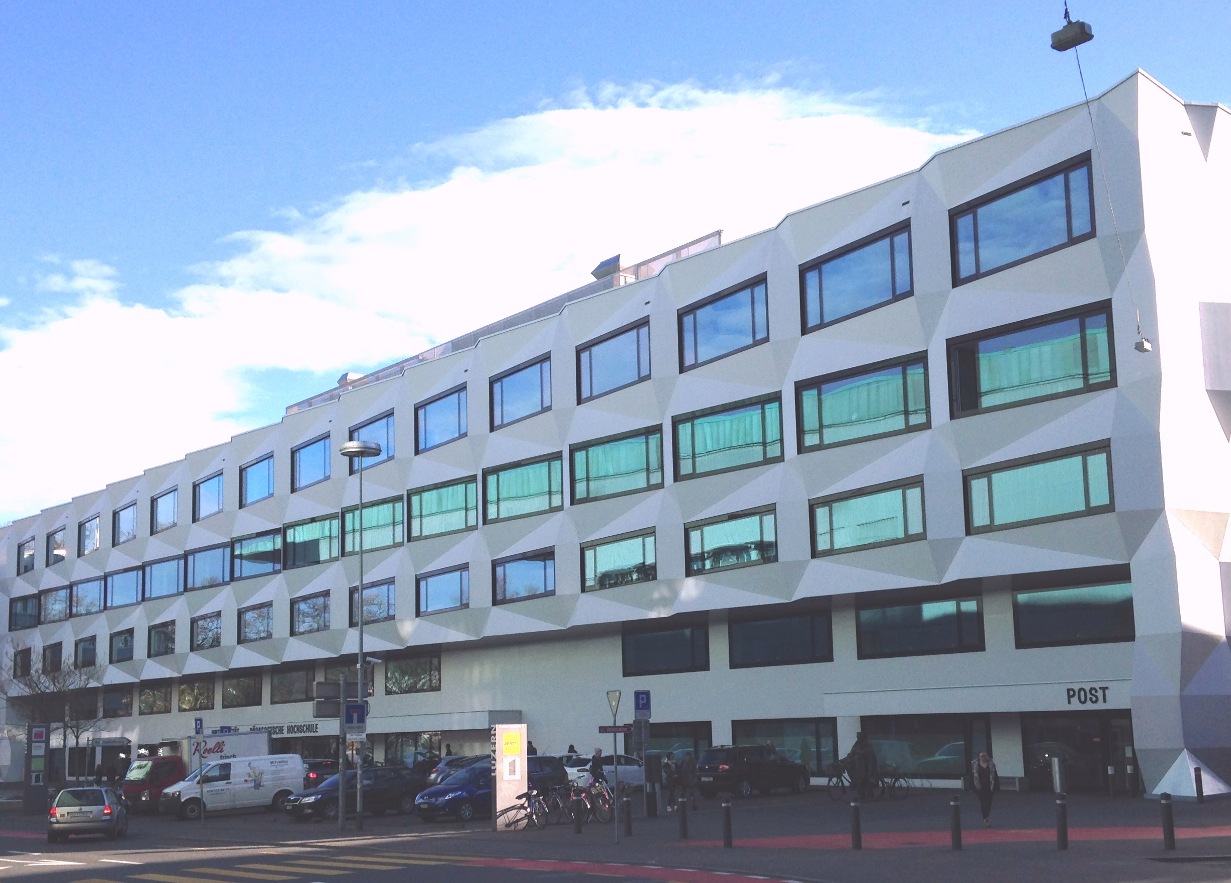 Building of the university and the pedagogical college in Lucerne, Switzerland.